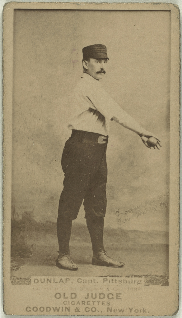 Title: Fred Dunlap, Pittsburgh Alleghenys, baseball card portrait Abstract/medium: 1 photographic print : albumen.